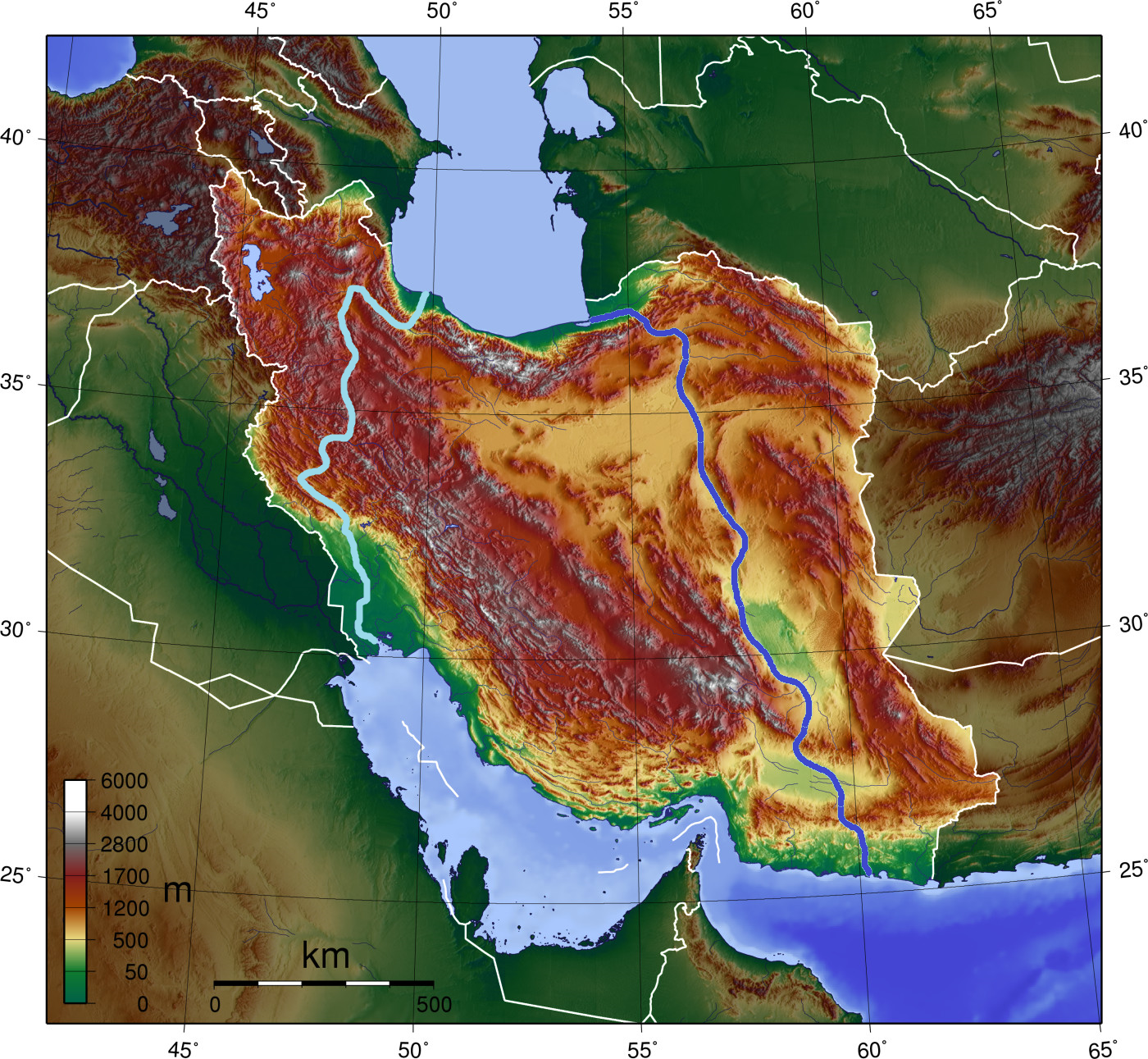 Proposed canal between Caspian Sea and Gulf of Oman or Persian Gulf (Project "Iranrood")